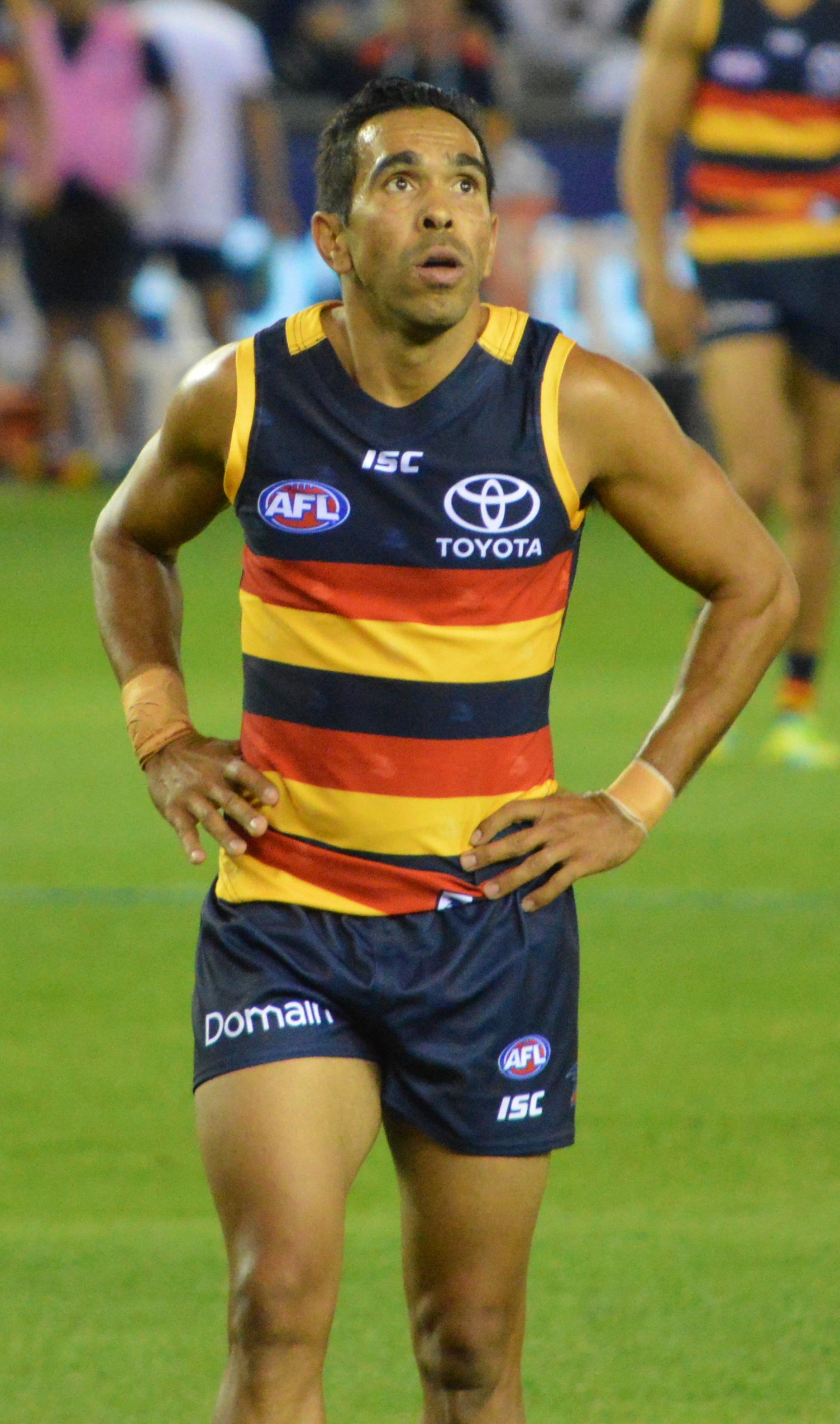 Eddie Betts playing with Adelaide in the 2017 pre-season